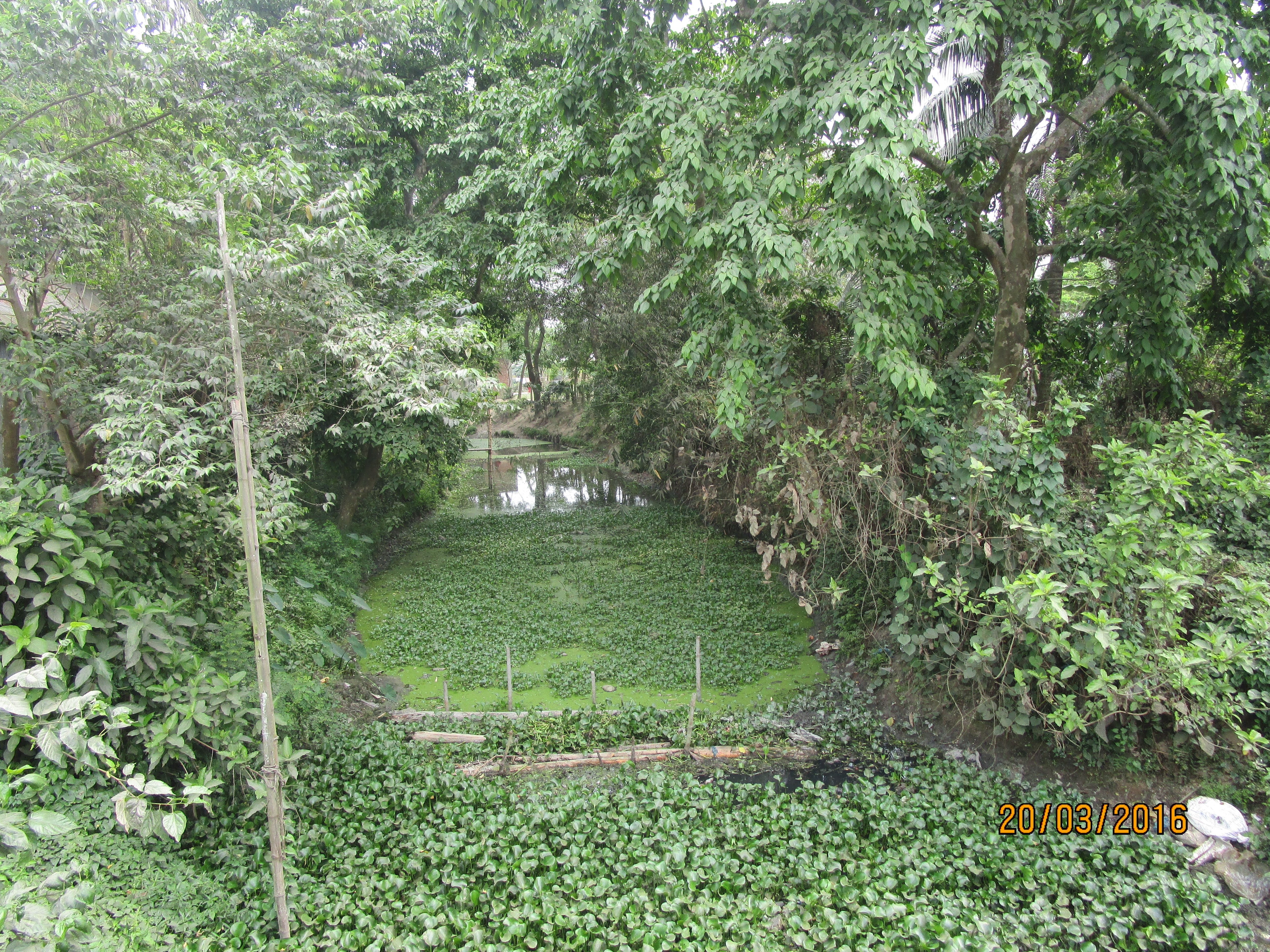 Nageshwari River downstream side at Deokhola bazar, Fulbaria